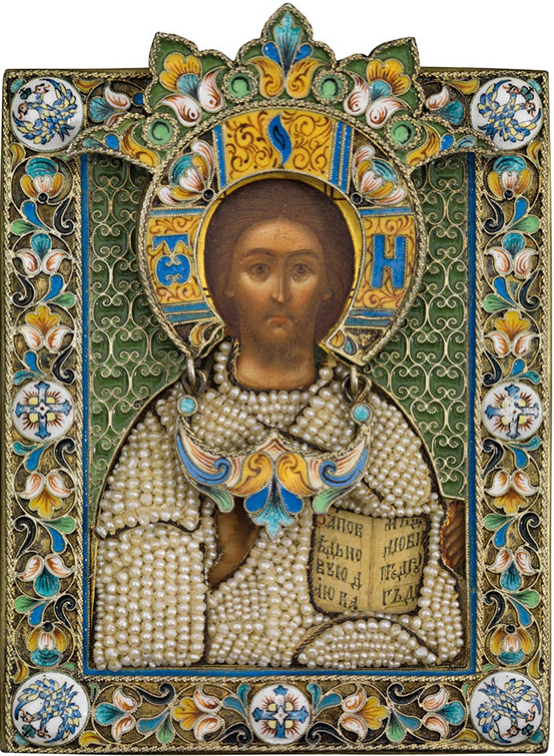 A miniature jewelled icon of Christ Pantocrator in a silver setting with enamel.